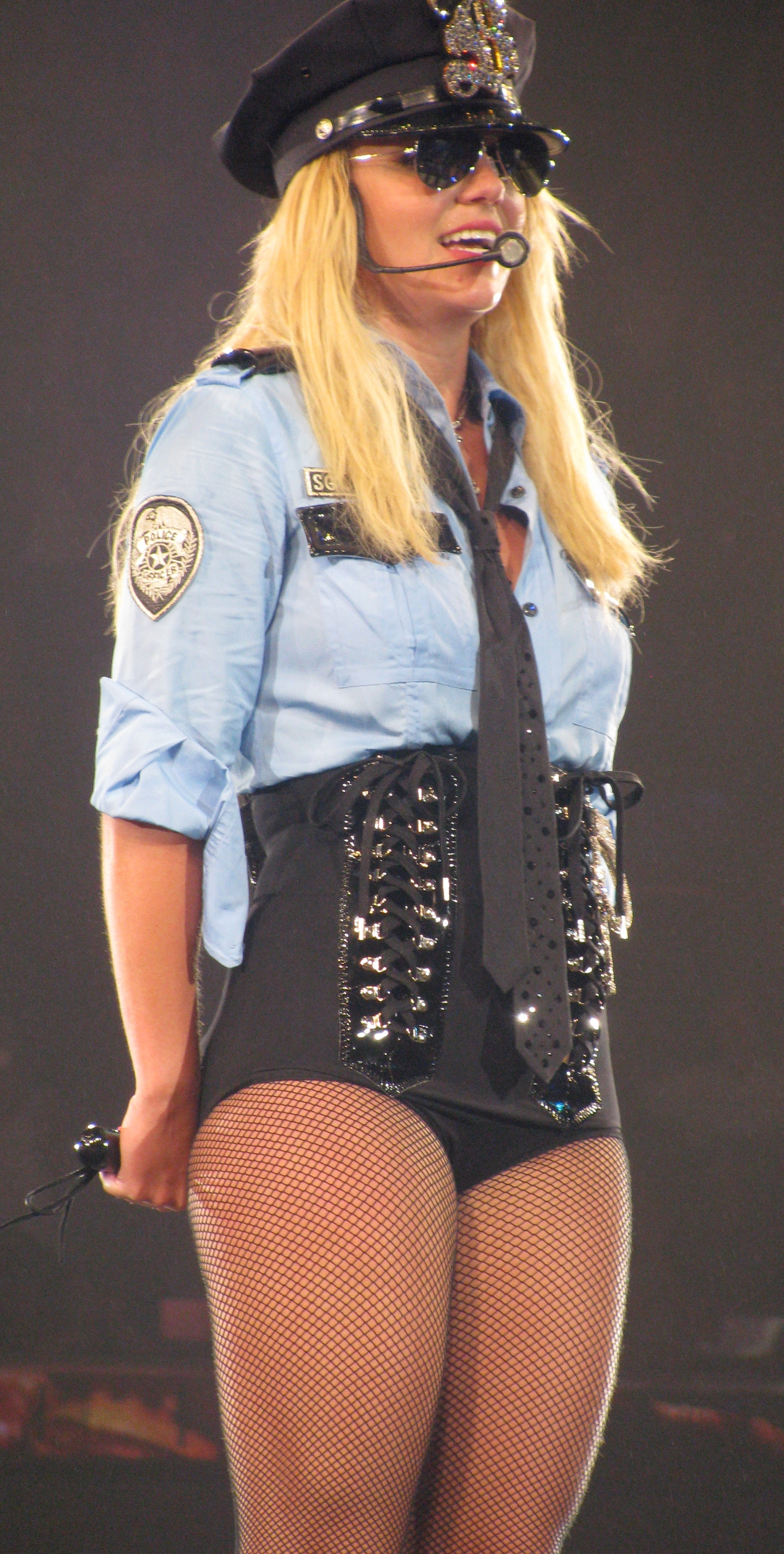 Performing Womanizer